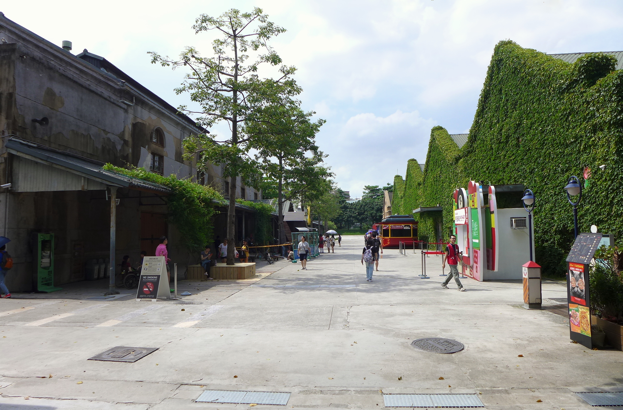 Huashan 1914 Creative Park Art Bouleyard